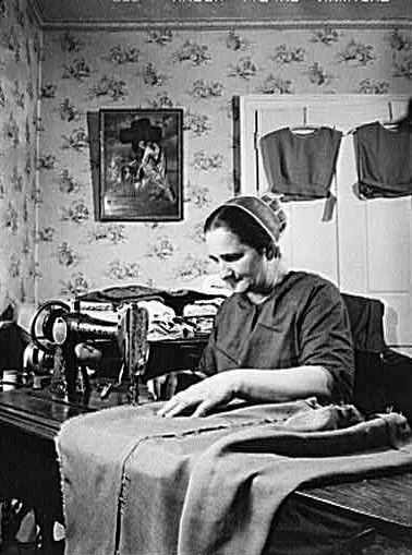 Lititz (vicinity), Pennsylvania. Mennonite farmer's wife dressmaking.